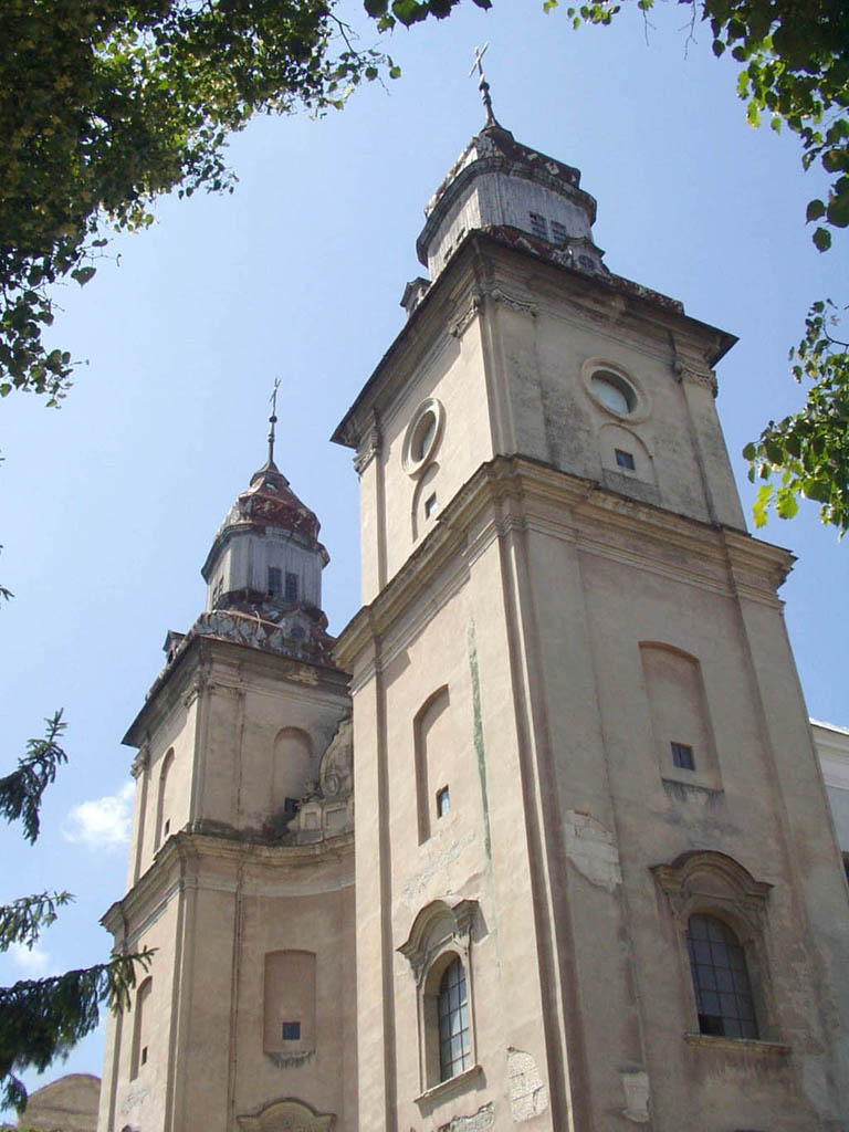 Church, Zbarazh